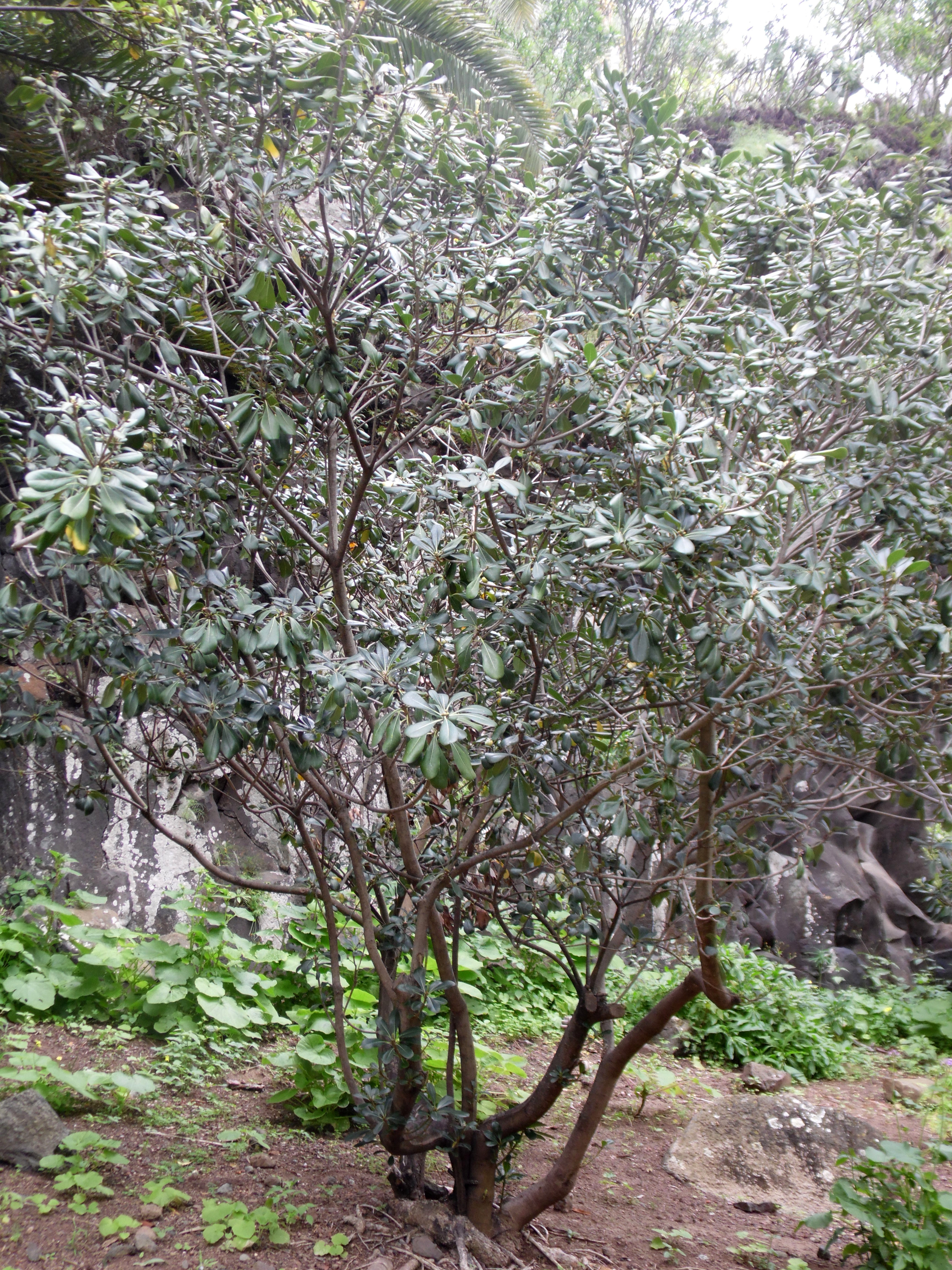 Pittosporum coriaceum in Jardín Botánico Canario Viera y Clavijo